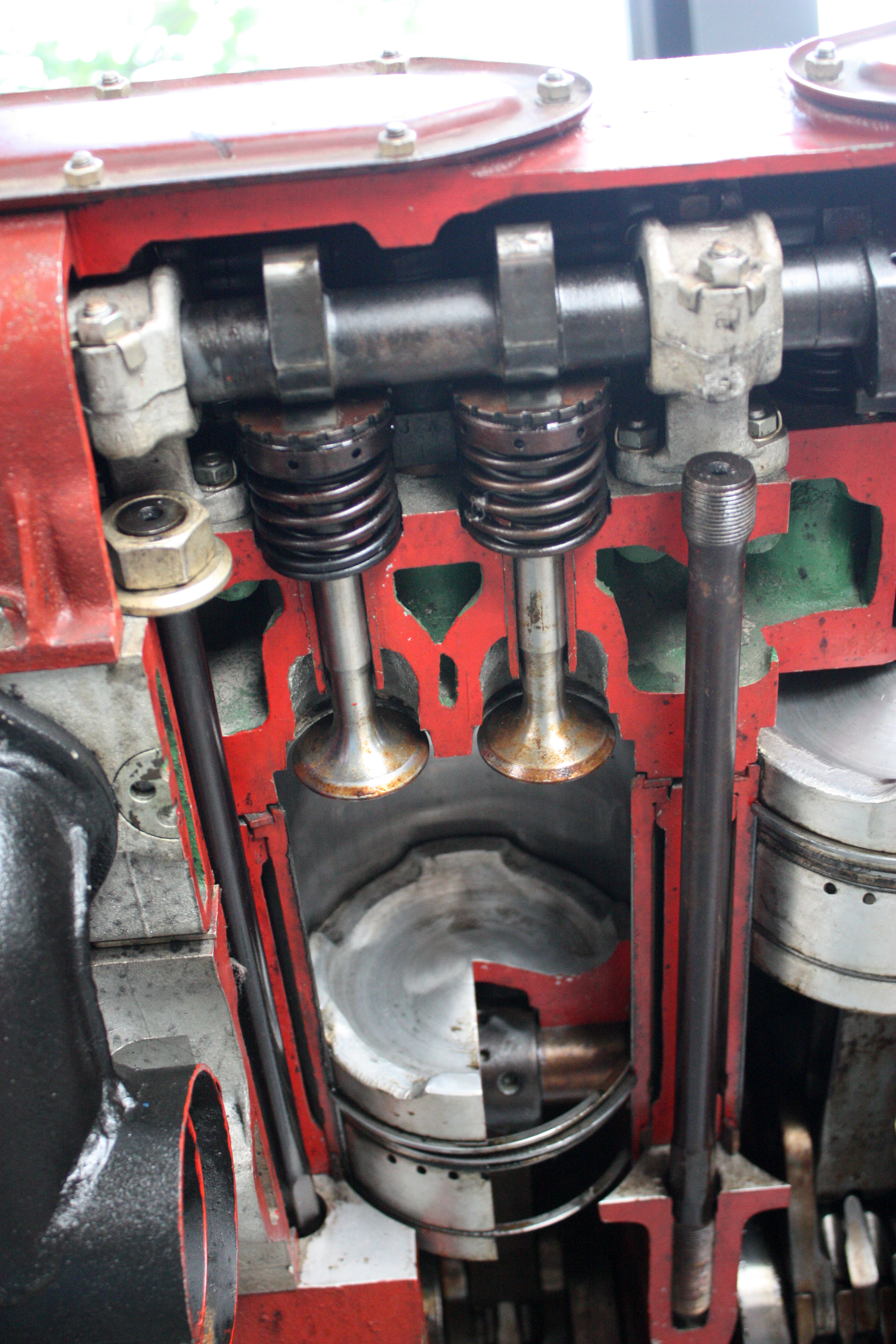 A sectional Model of the W-46-6 Engine of the T-72 Main Battle Tank. German Tank Museum, Munster.